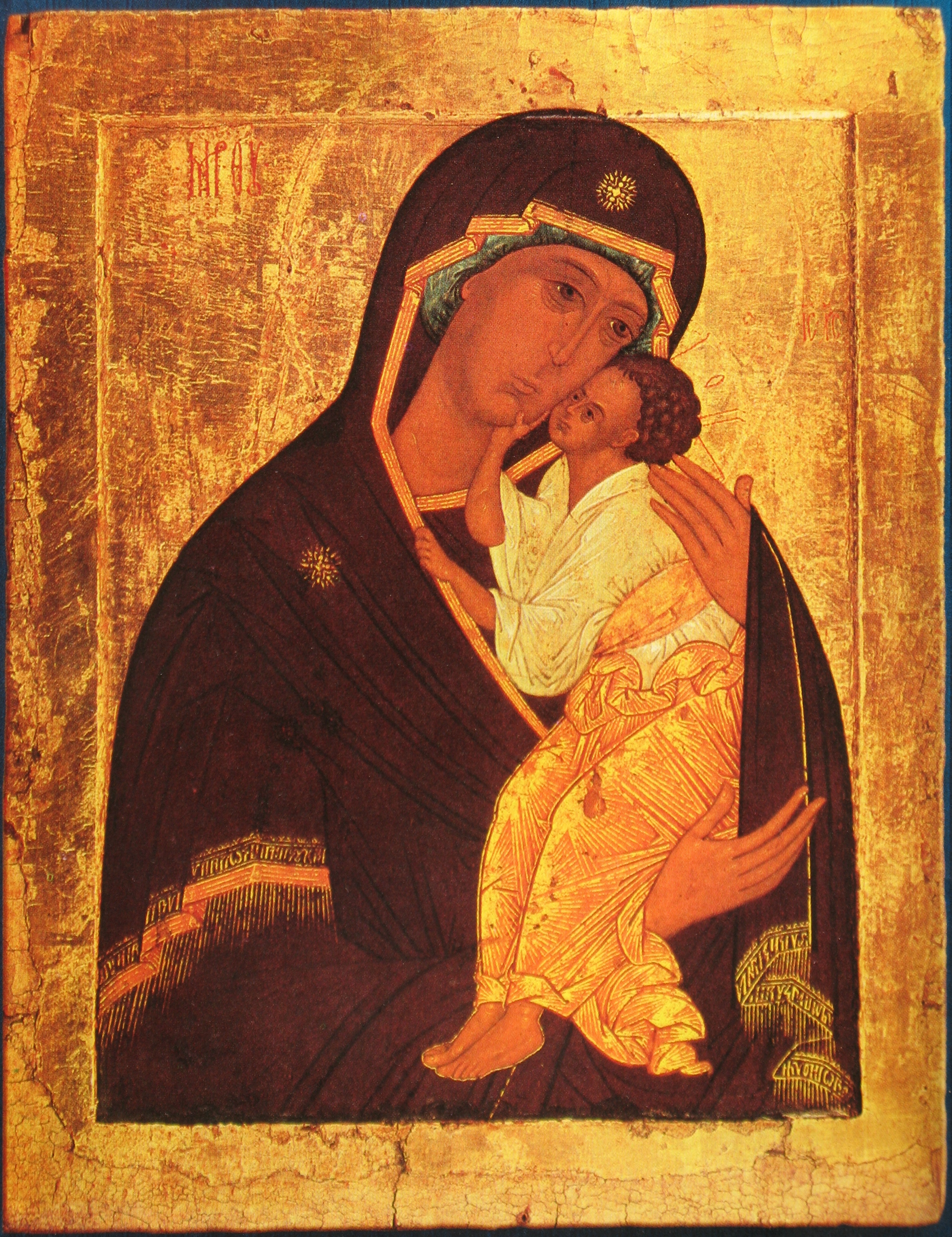 Our Lady of Yaroslavl (2nd half of XV century).